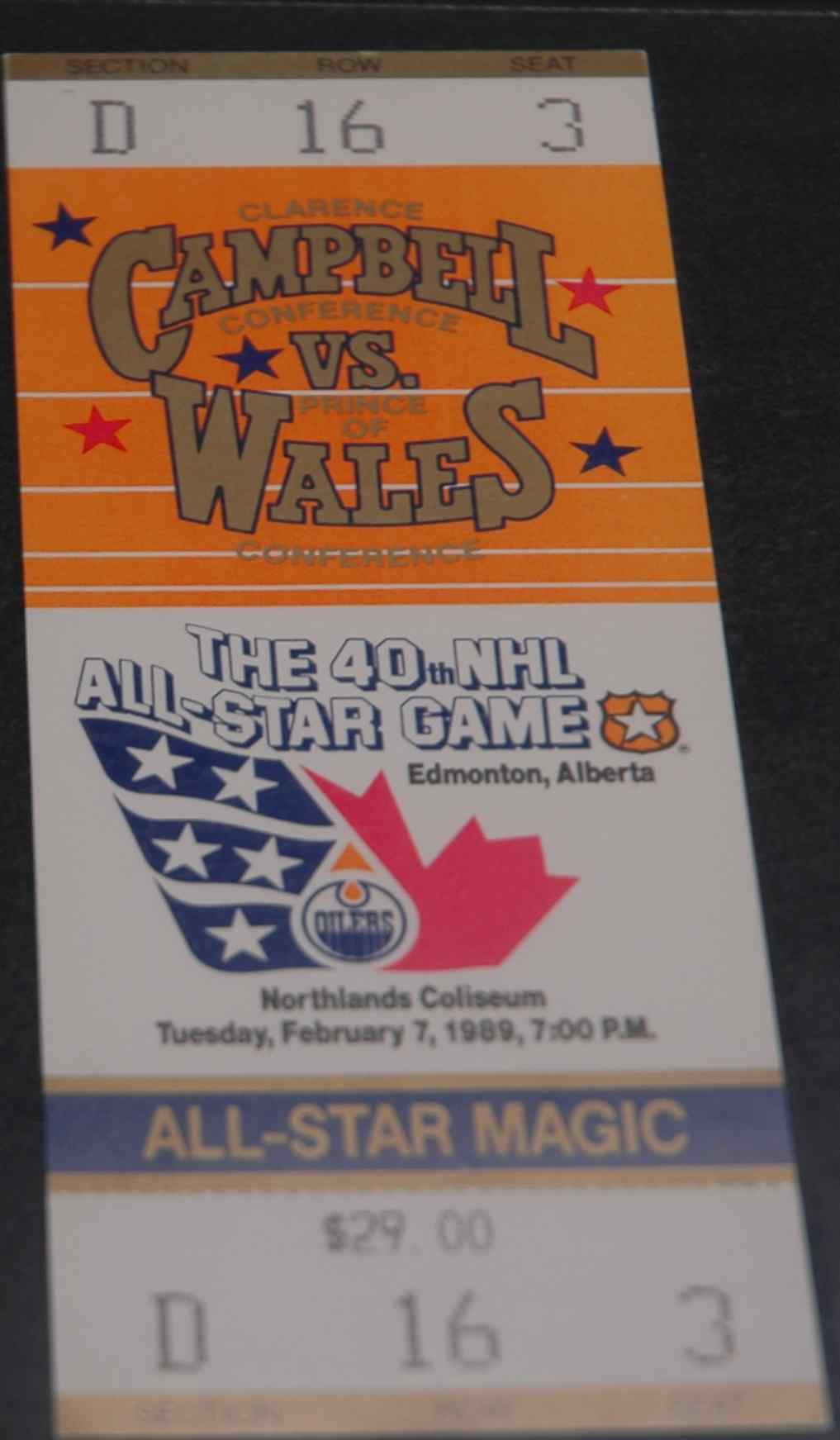 Ticket for the NHL All-Star Game 1989, shown in the Hall of Fame in Toronto